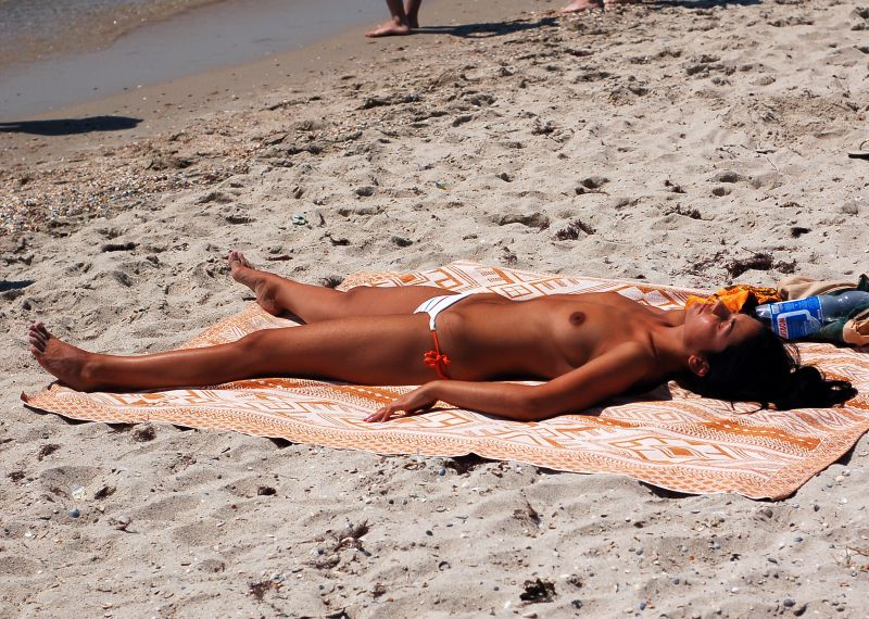 woman, topless sunbathing, Ukraina